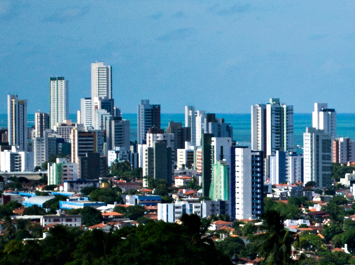 Olinda - Pernambuco - Brazil